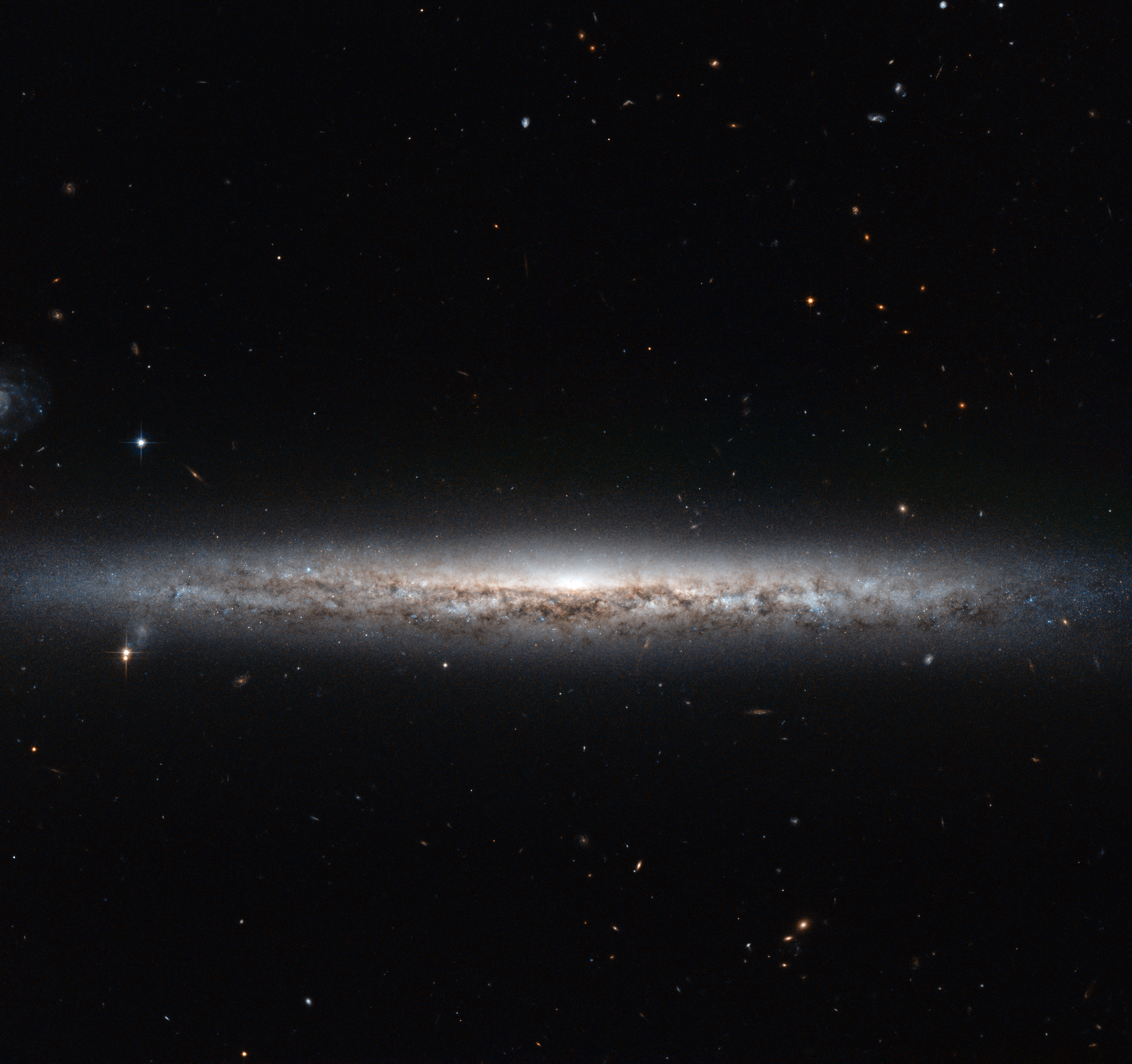 The thin, glowing streak slicing across this image cuts a lonely figure, with only a few foreground stars and galaxies in the distant background for company. However, this is all a case of perspective; lying out of frame is another nearby spiral. Together, these two galaxies make up a pair, moving through space together and keeping one another company. The subject of this Hubble image is called NGC 3501, with NGC 3507 as its out-of-frame companion. The two galaxies look very different — another example of the importance of perspective. NGC 3501 appears edge-on, giving it an elongated and very narrow appearance. Its partner, however, looks very different indeed, appearing face-on and giving us a fantastic view of its barred swirling arms. While similar arms may not be visible in this image of NGC 3501, this galaxy is also a spiral — although it is somewhat different from its companion. While NGC 3507 has bars cutting through its centre, NGC 3501 does not. Instead, its loosely wound spiral arms all originate from its centre. The bright gas and stars that make up these arms can be seen here glowing brightly, mottled by the dark dust lanes that trace across the galaxy. A version of this image was entered into the Hubble's Hidden Treasures image processing competition by contestant Nick Rose.